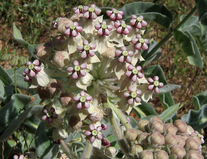 Asclepias eriocarpa. Santa Monica Mountains National Recreation Area, California, USA. Taken at Malibu Creek State Park: Crags Road. NPS photo, no copyright.